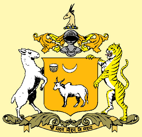 Karauli State Coat of Arms This work is in the public domain in India because its term of copyright has expired. The Indian Copyright Act applies in India, to works first published in India. According to The Indian Copyright Act, 1957 (Chapter V Section 25), Anonymous works, photographs, cinematographic works, sound recordings, government works, and works of corporate authorship or of international organizations enter the public domain 60 years after the date on which they were first published, counted from the beginning of the following calendar year (ie. as of 2016, works published prior to 1 January 1956 are considered public domain). Posthumous works (other than those above) enter the public domain after 60 years from publication date. Any other kind of work enters the public domain 60 years after the author's death. Text of laws, judicial opinions, and other government reports are free from copyright. Photographs created before 1958 are in the public domain 50 years after creation, as per the Copyright Act 1911. This file may not be in the public domain outside India. The creator and year of publication are essential information and must be provided. See Wikipedia:Public domain and Wikipedia:Copyrights for more details. This image shows a flag, a coat of arms, a seal or some other official insignia. The use of such symbols is restricted in many countries. These restrictions are independent of the copyright status.